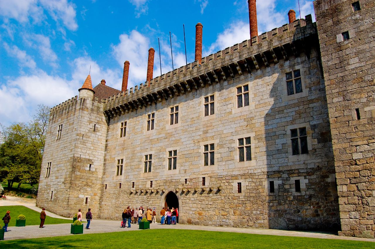 Hall of the Dukes of Bragança in Guimarães, Portugal.